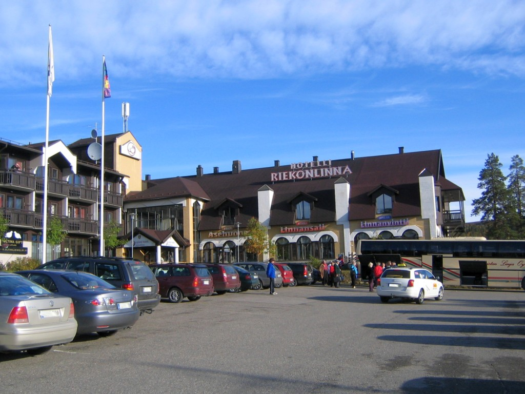 Hotel Riekonlinna in Finland